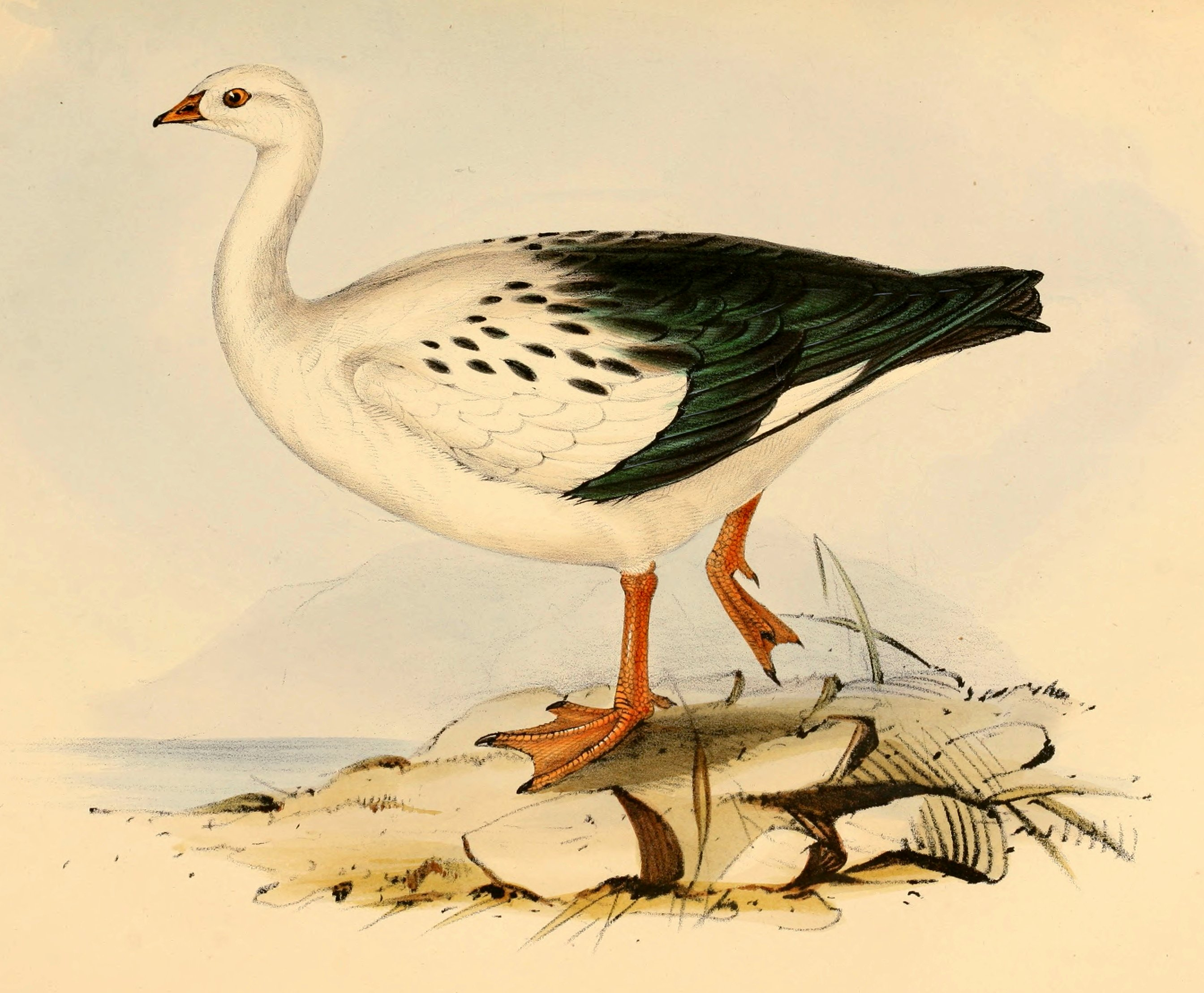 Chloephaga melanoptera (Eyton, 1838) (Original description: Anser melanopterus explanation for modern name here)